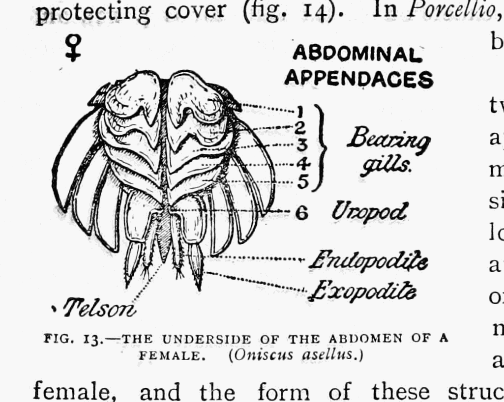 Illustration from the book given under "Source"